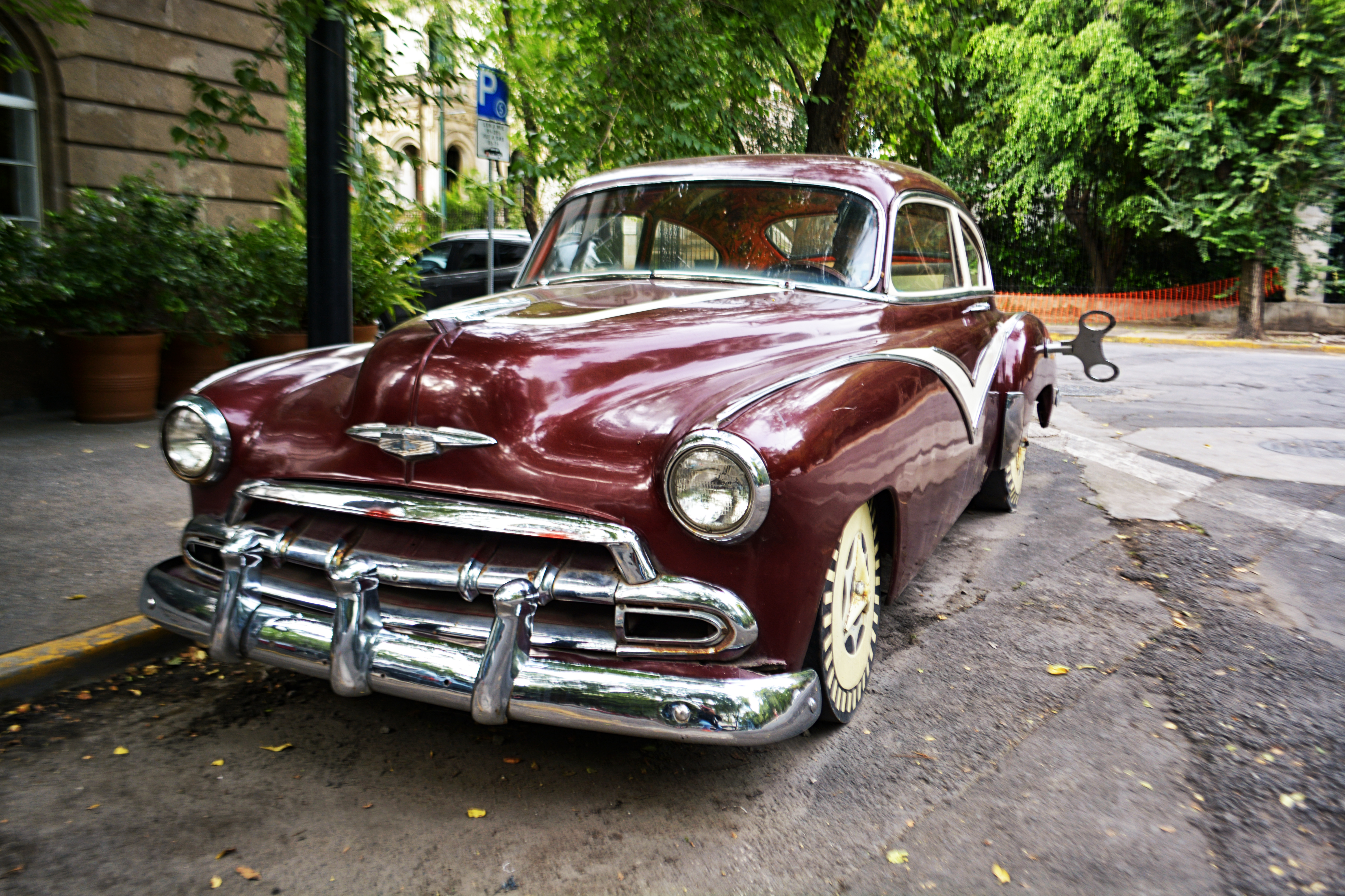 Parque España (Spain Park), Mexico City.